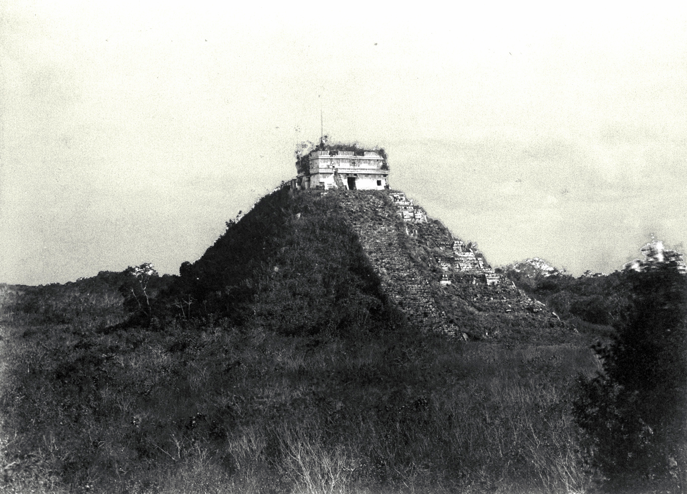 Chichen Itza, Yucatan, Mexico. Castillo, photograph by Teobert Maler (1842-1917)